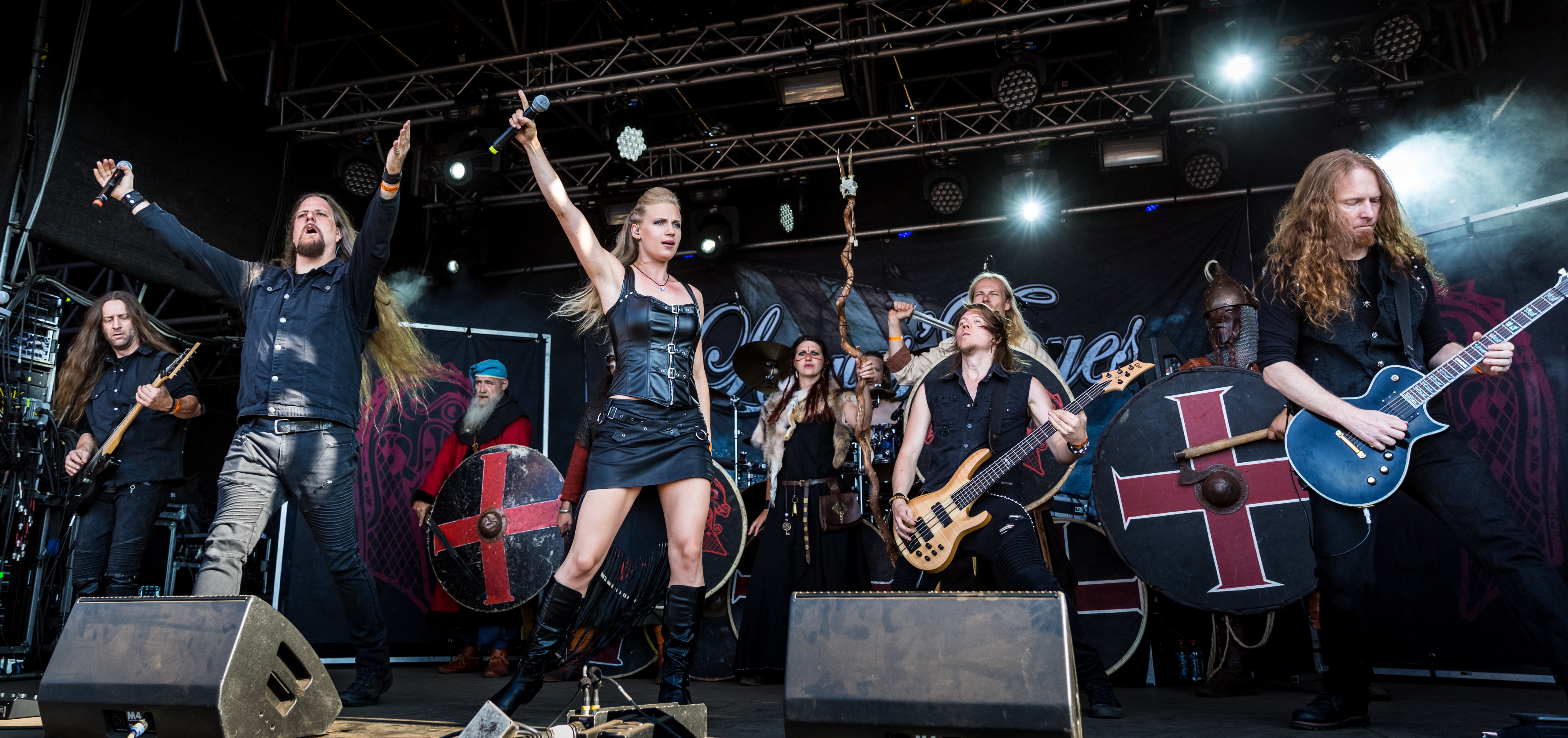 Leaves’ Eyes - Wacken Open Air 2018